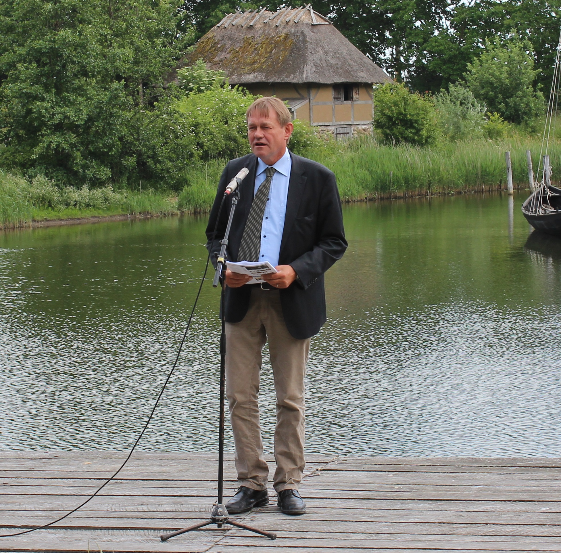 Danish business man Anders Høiris at The Middle Ages Centre in Denmark.